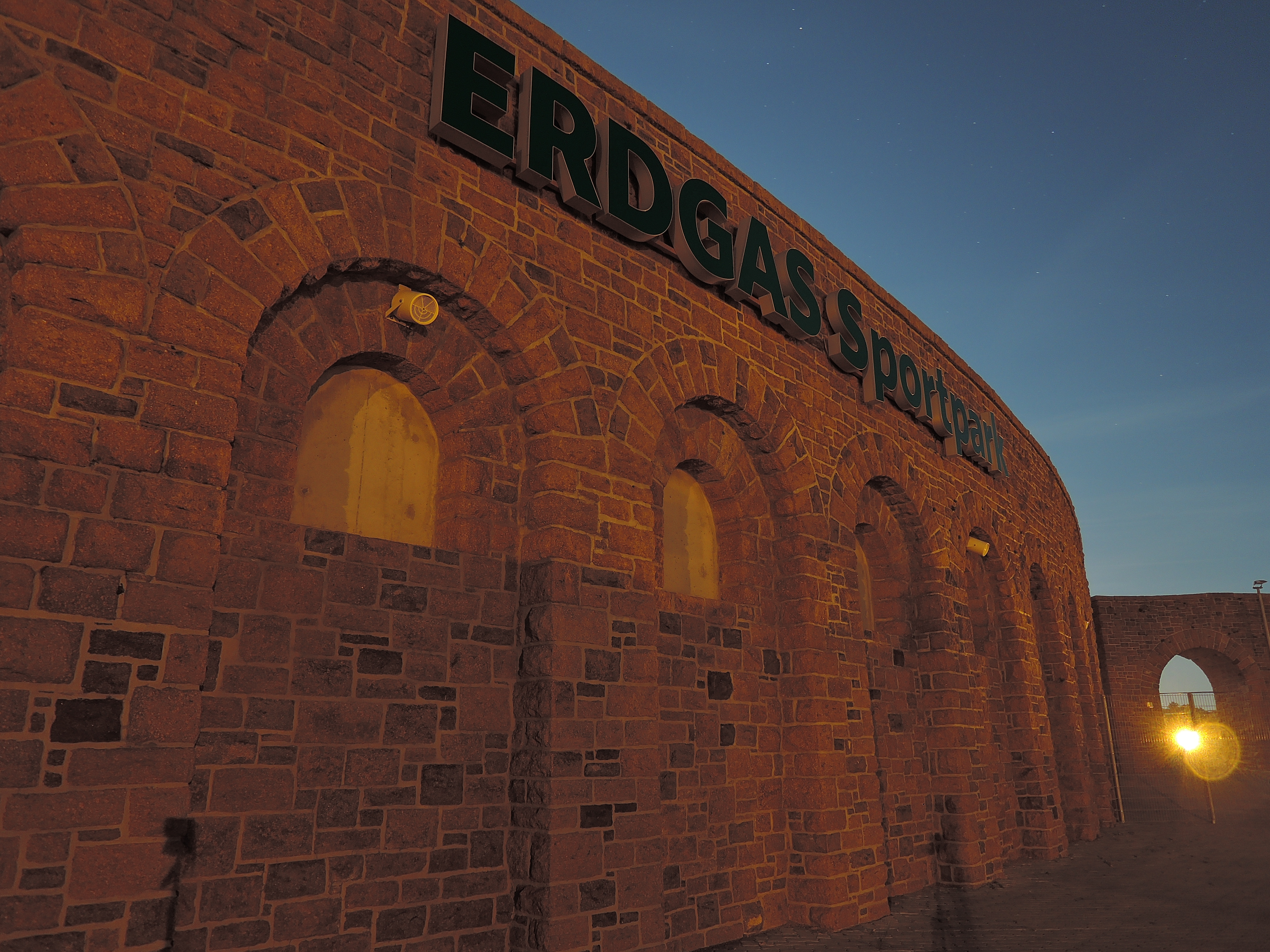 Night shot of the ERDGAS Sportpark in Halle (Saale), Germany.